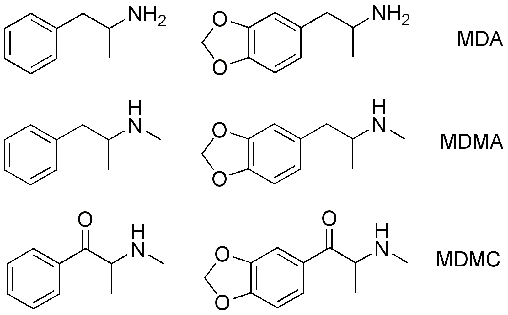 Comparisons between amphetamine and MDA, methamphetamine and MDMA, methcathinone and MDMC, respectively.